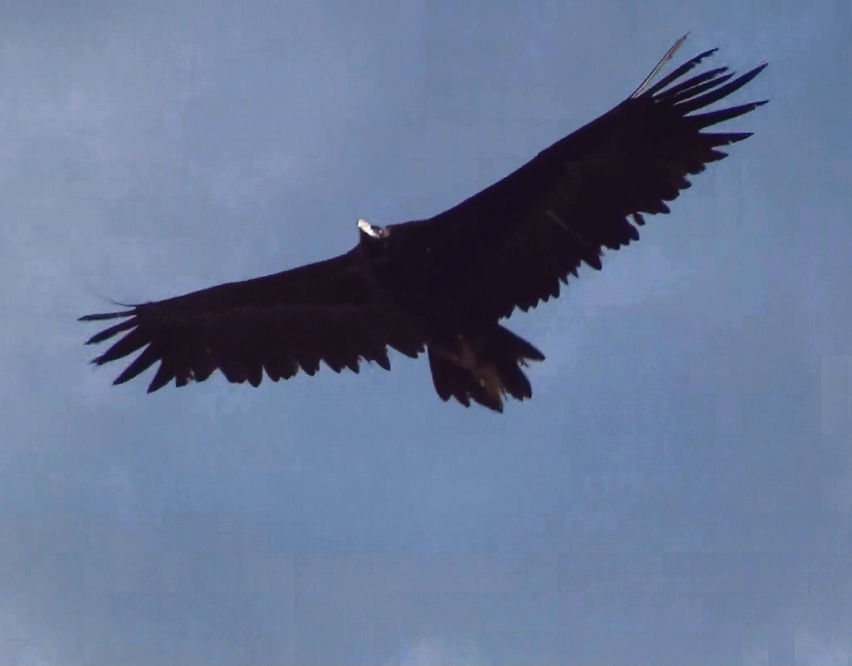 Black Vulture Aegypius monachus, in flight over the pre-Pyrenees of Lleida, Catalonia, northeast Spain.